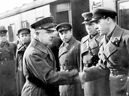 Ilia_Starinov_and_Klim_Voroshilov